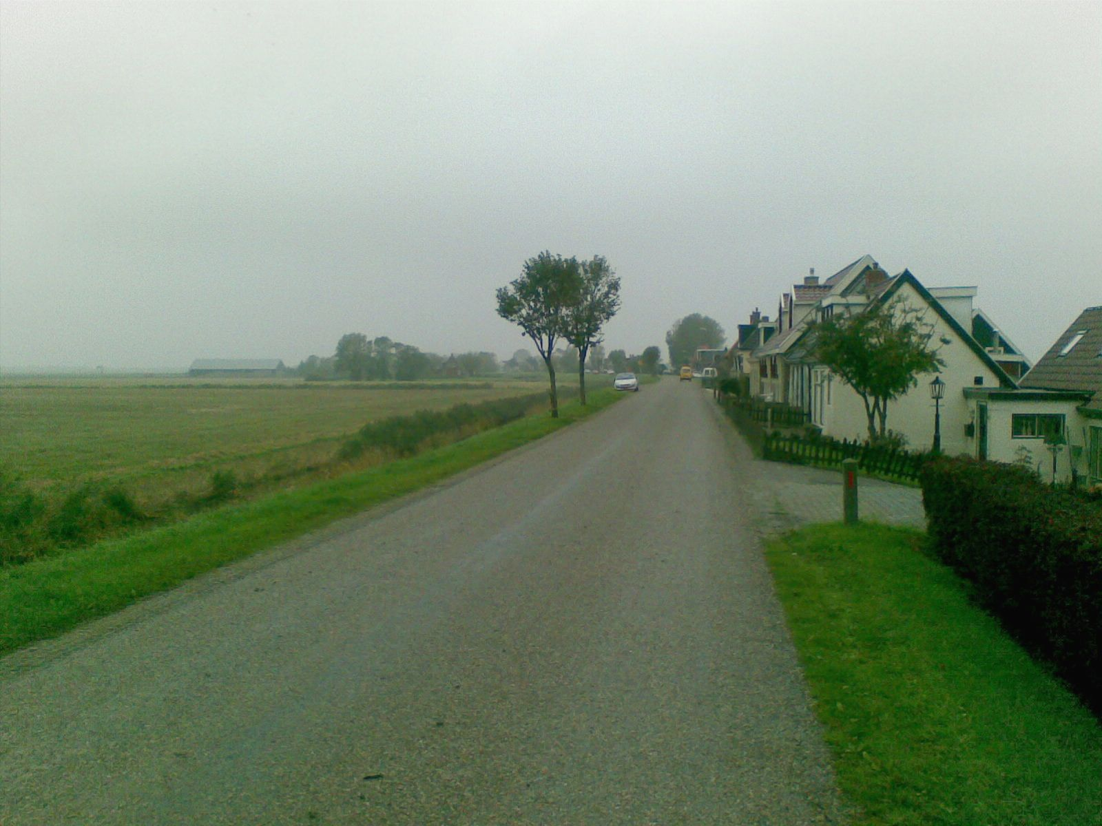 own photo